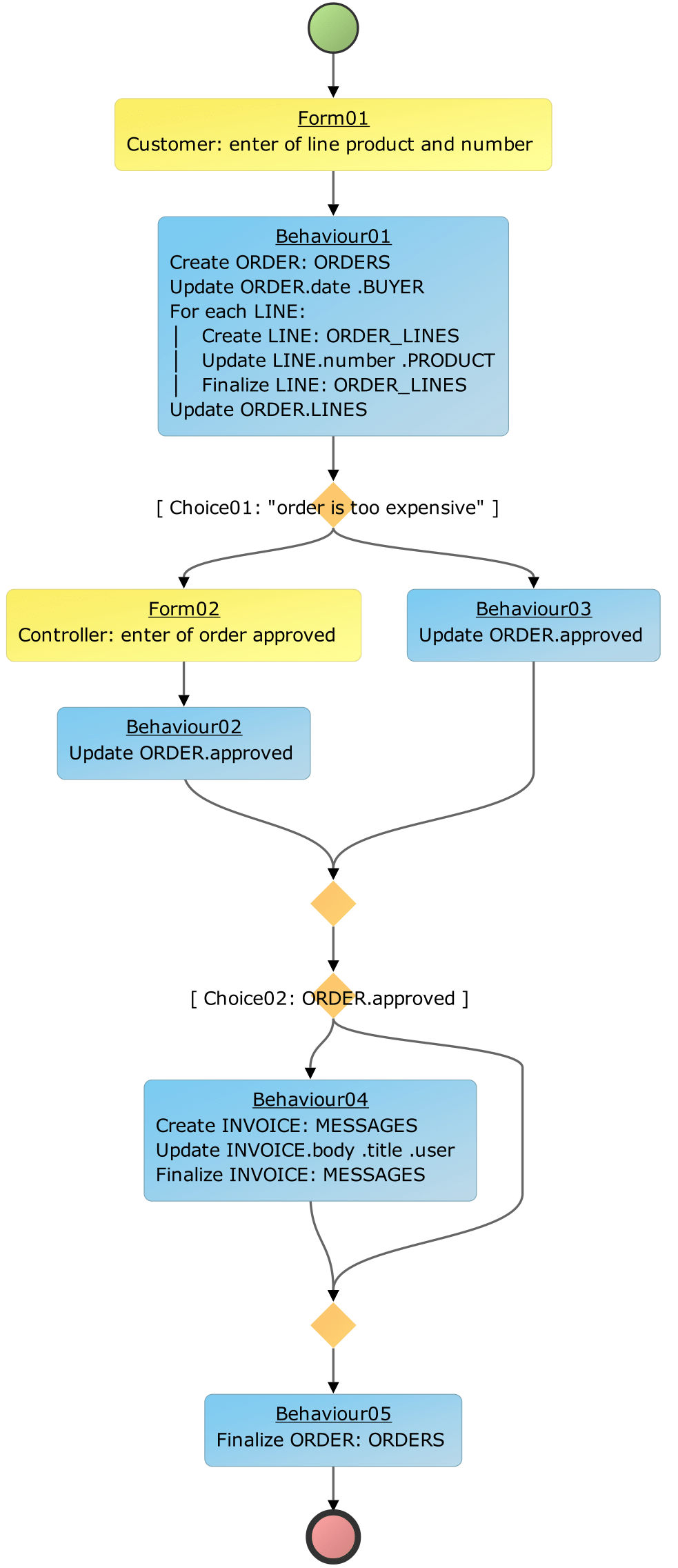 This is an example of a process design which is automatically created by SPADE based on end result oriented business requirement specifications that are documented using the SMART Requirement 2.0 method.